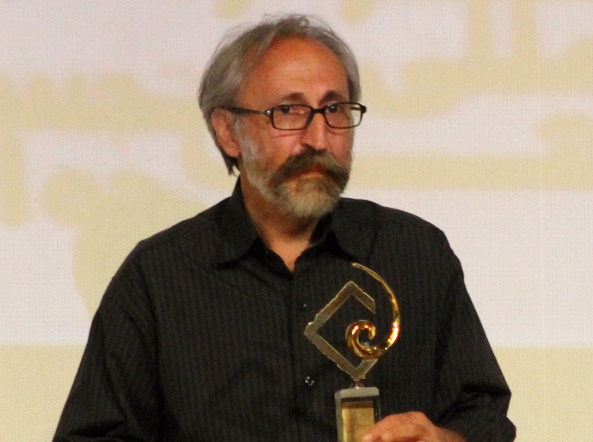 Mohammad Ali Baniasadi, Iranian painter and illustrator in 19th Intl. Festival of Visual Arts for Young Artists - Summer 2012 - Gorgan, Iran